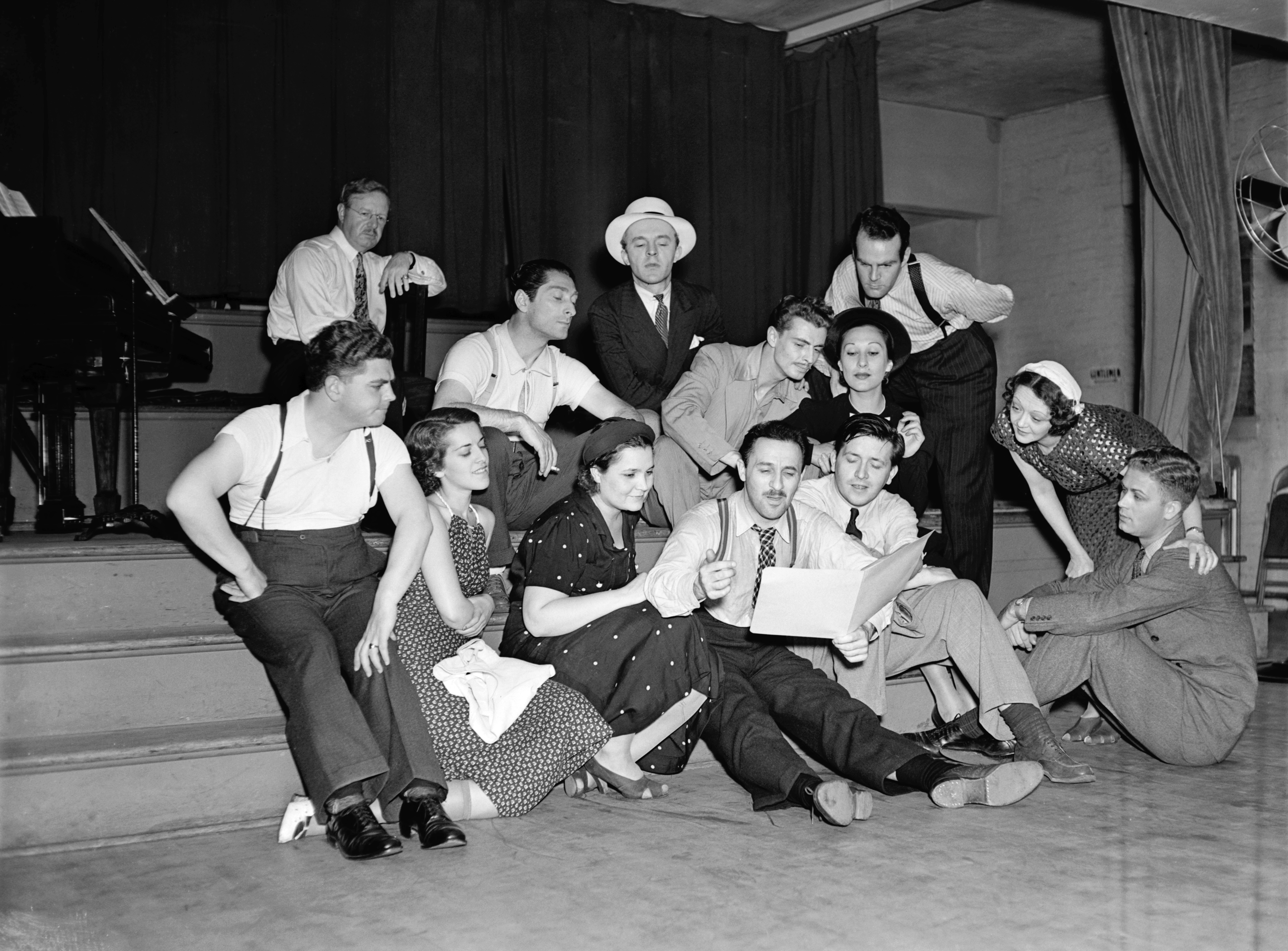 Photograph of Marc Blitzstein and the cast of the Federal Theatre Project production of The Cradle Will Rock